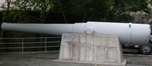 Clipping of photograph of a Mk I 10 inch breech loading gun formerly on the Upper Belcher's Battery in the Western District in the 1880s. On display at the Hong Kong Museum of Coastal Defence. For full image see Image:1880s 10 inch breech loading gun side HKMCD.JPG